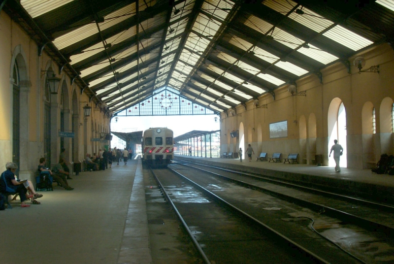 Barreiro train station, Setúbal, Portugal.